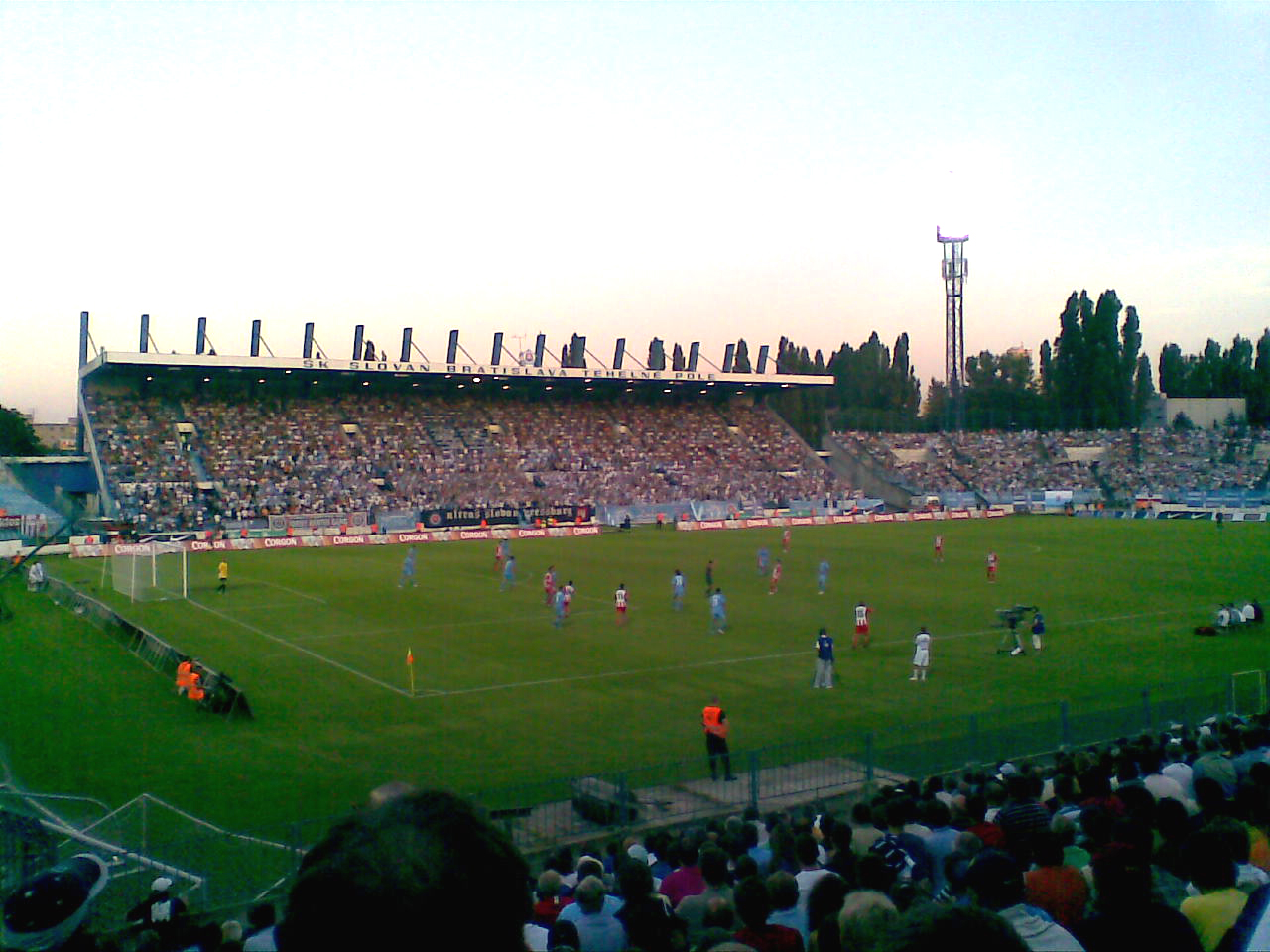 First match, Third qualifying round, 2009–10 UEFA Champions League ŠK Slovan Bratislava - Olympiakos FC 0-2 (0-2)